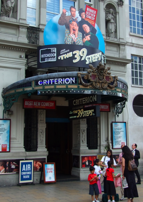 A photo of The Criterion Theatre, London taken by myself.